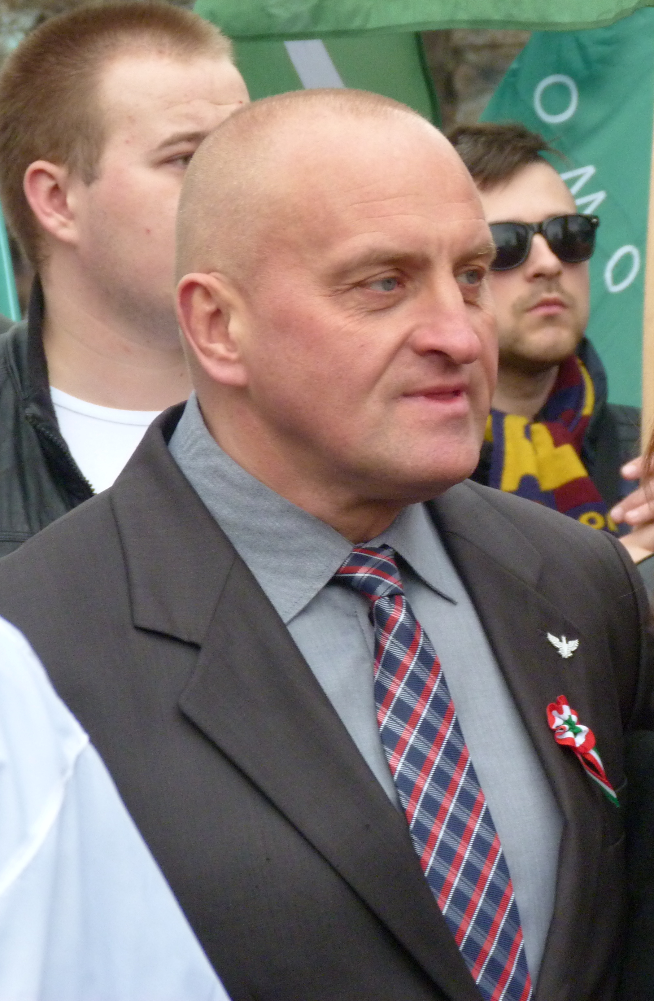 Cropped version of File:Marian Kowalski - Ruch Narodowy, 2015.03.15 (1).JPG